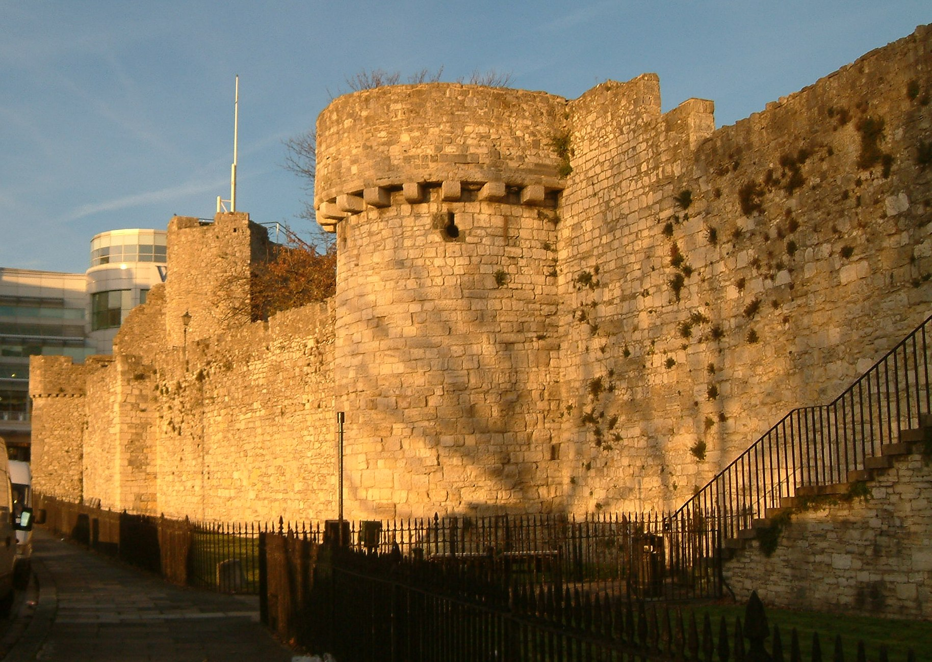 Southampton, England, United-Kingdom